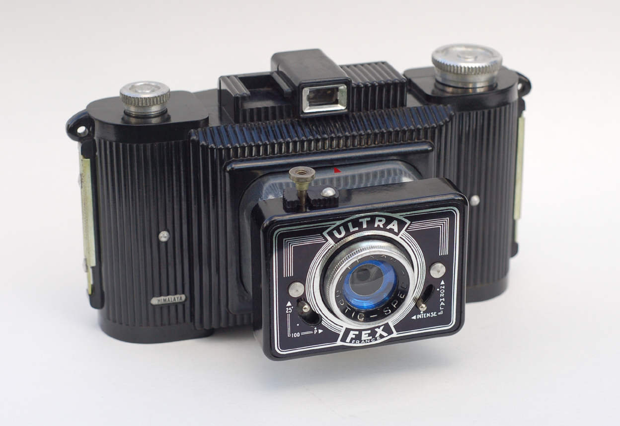 Manufactured by Fex/Indo (France), the Ultra Fex was made in various incarnations from 1946-66. This particular example was made c1956, and has the word "Himalaya" on the tiny plate at the bottom left. Apparently, Fex sponsored a Himalayan expedition in 1951, and began marketing a few Ultra Fex models as such. This is the earlier version of the Ultra-Fex. Later ones had the shutter release on the body.